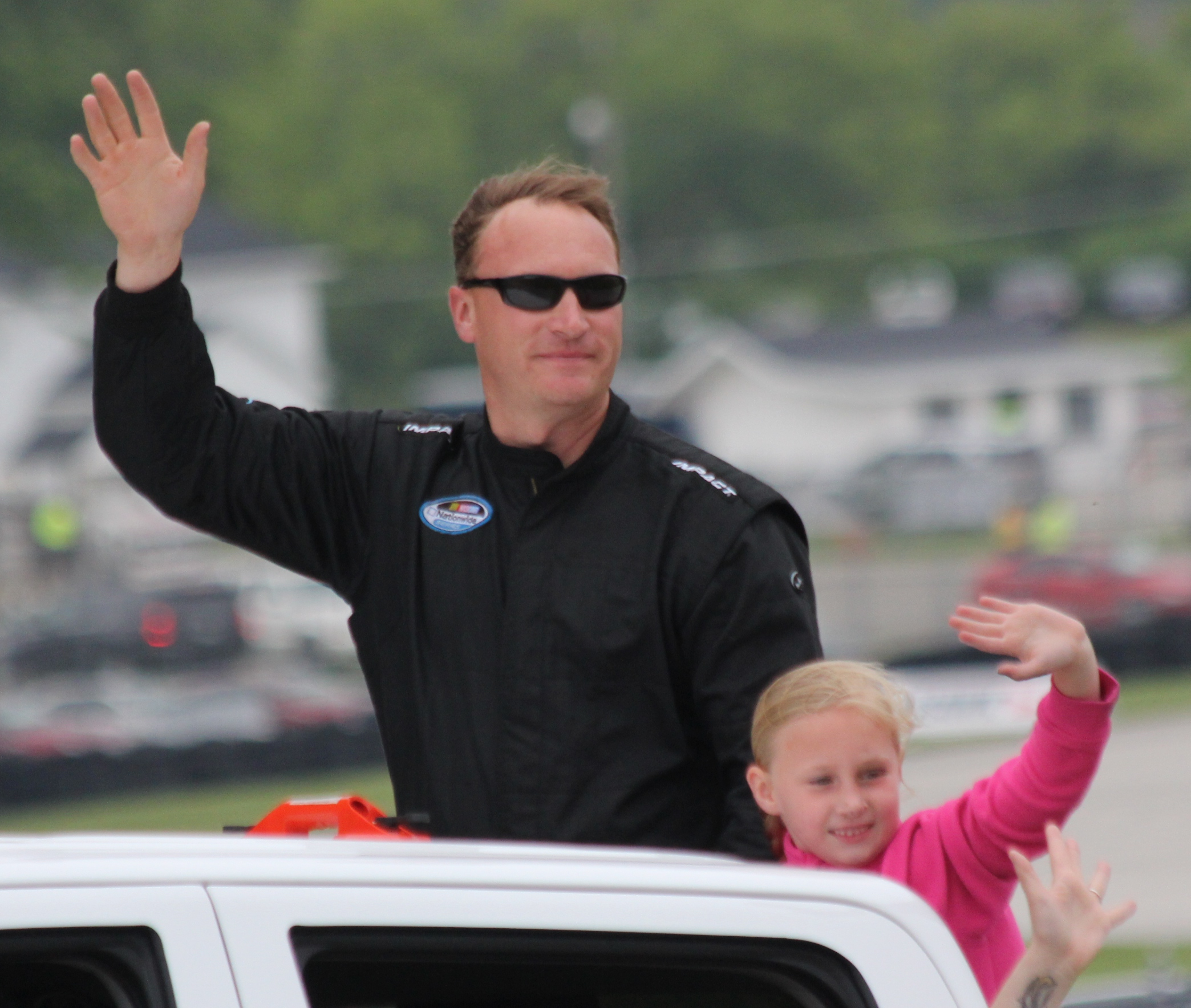 NASCAR Nationwide Series driver Tim Schendel waves to the crowd at the 2014 Gardner Denver 200 event at Road America.